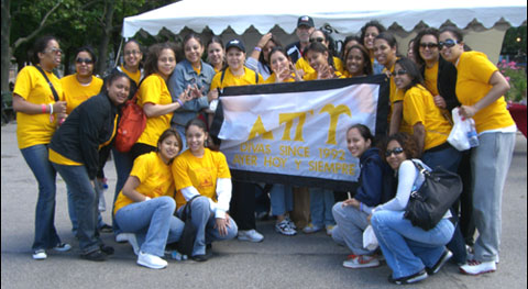 picture of the lambda divas doing community service.